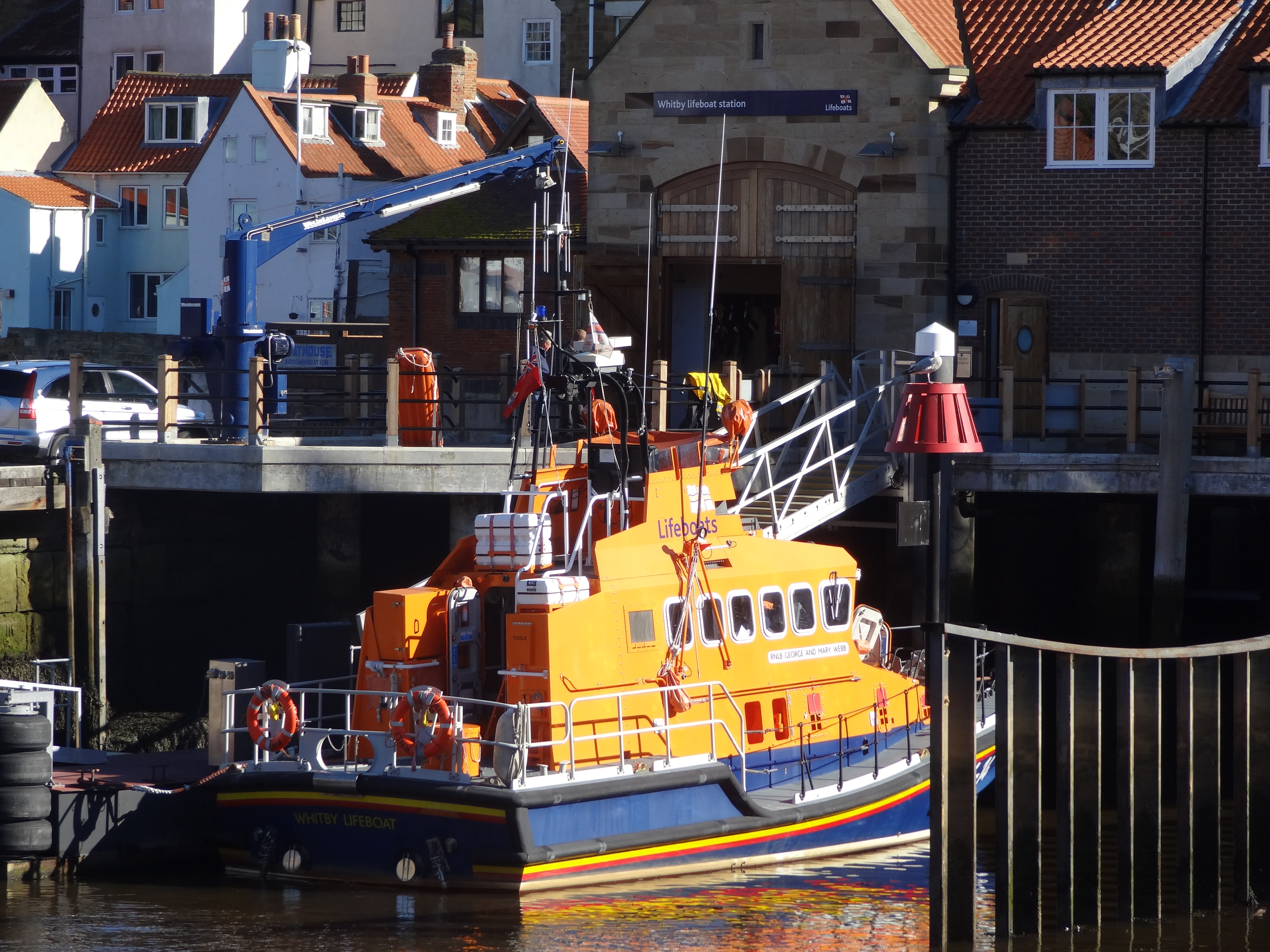 Whitby Lifeboat Station